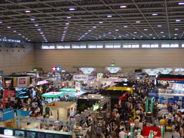 The Shizuoka hobby show is a product fair of the plastic model radio control model etc. of Japan held in May every year. The photograph is taken by 'Twinmesse-Shizuoka' of Shizuoka Prefecture Shizuoka City in May, 2006.